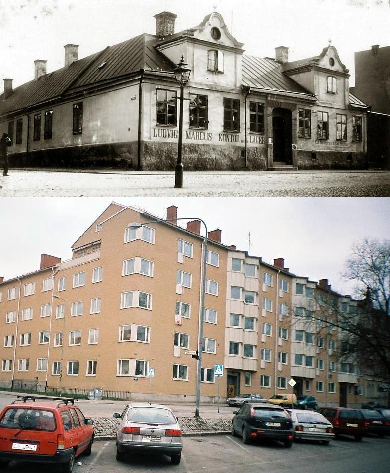 Marcusska gården, the property of Jacob Marcus, torn down in 1917, and the current appearance of the same site, as released by image creator FamSACPlace: Fleminggatan 18 (in 1917 Södra Strömsgatan 22), Norrköping, Sweden